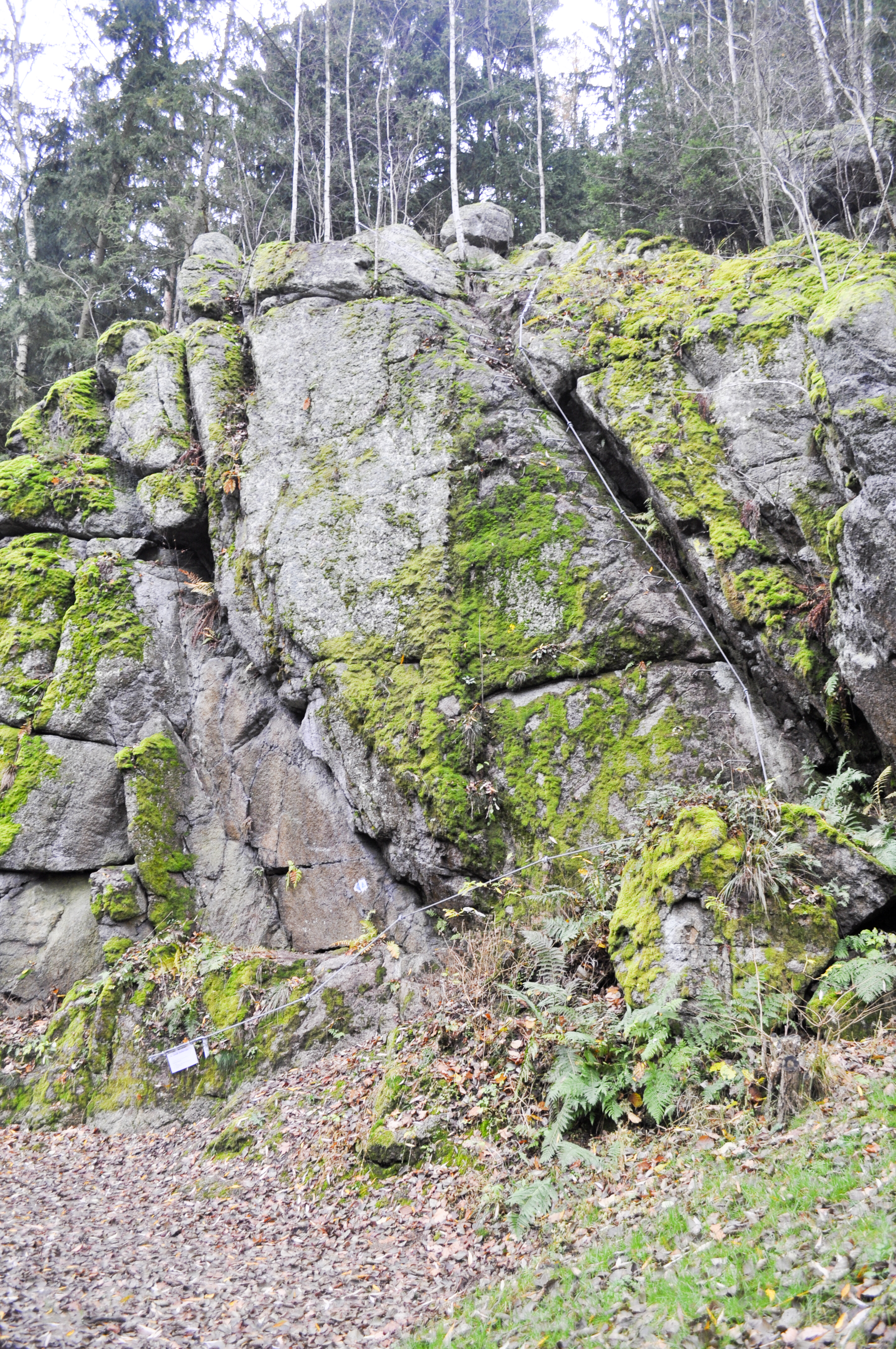 Botanical Garden in Bečov nad Teplou